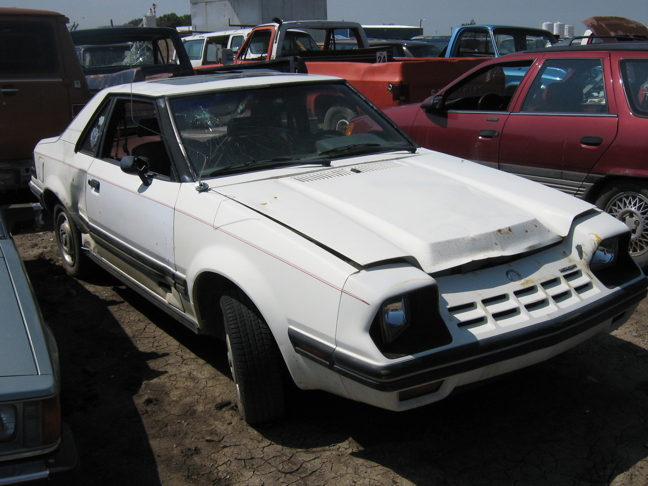 Mercury LN7 was a badge engineered version of the Ford EXP based on the Escort/Lynx only sold in 1982 and 1983.